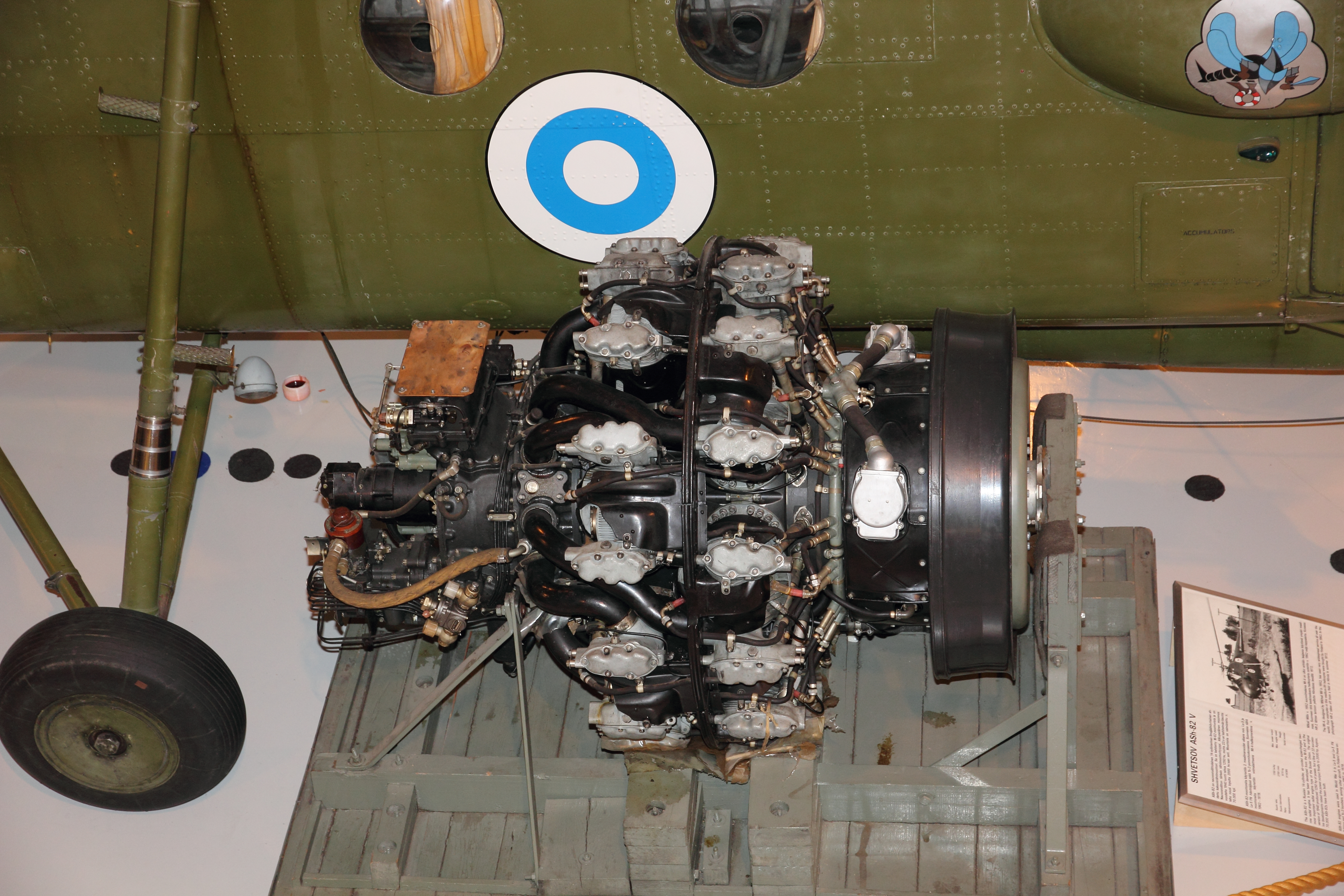 Shvetsov ASh-82V helicopter engine in the Aviation Museum of Central Finland.